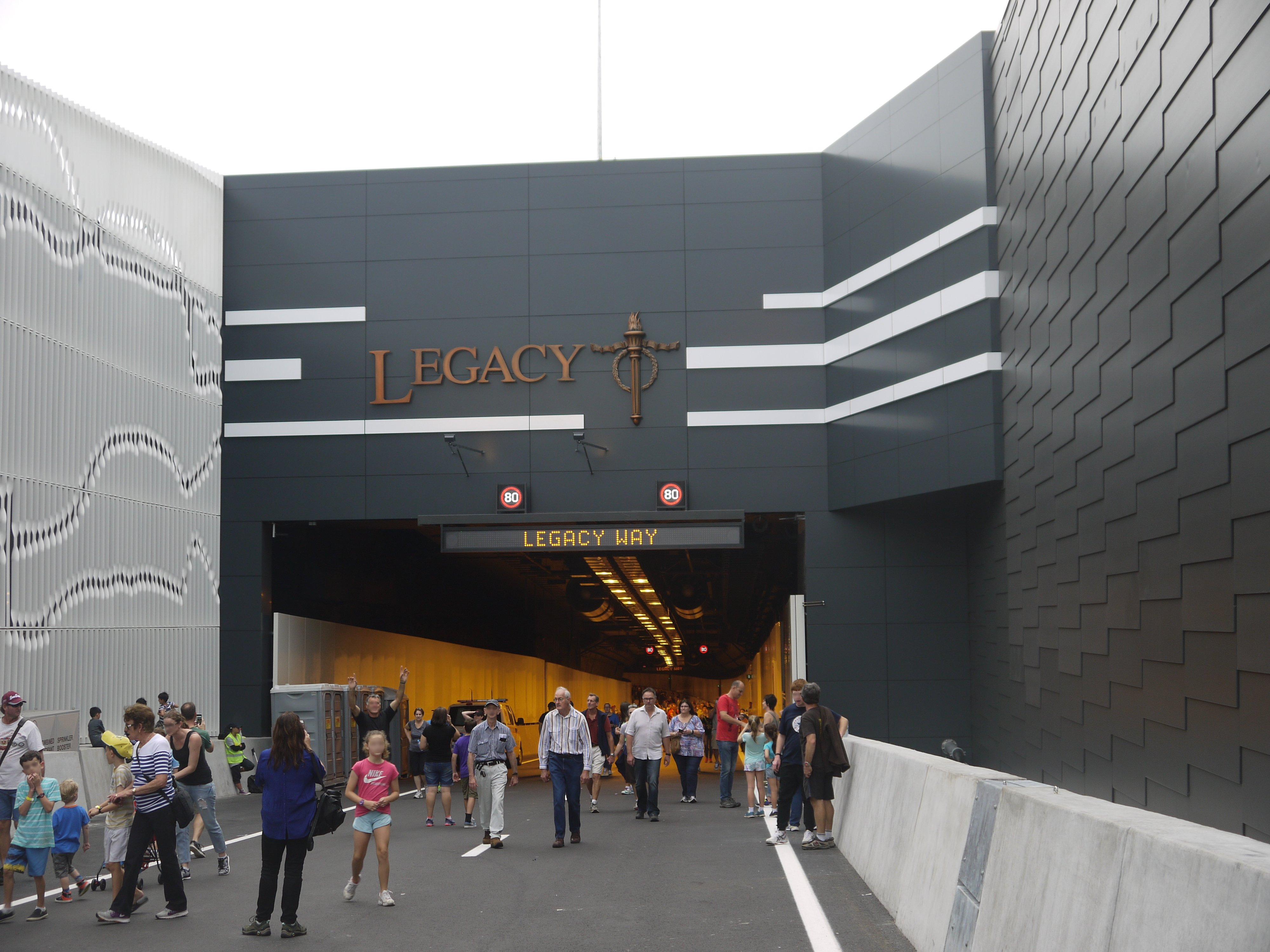 Eastern portal of the Legacy Way in Brisbane (westbound direction) taken on public walk through day 31 May 2015